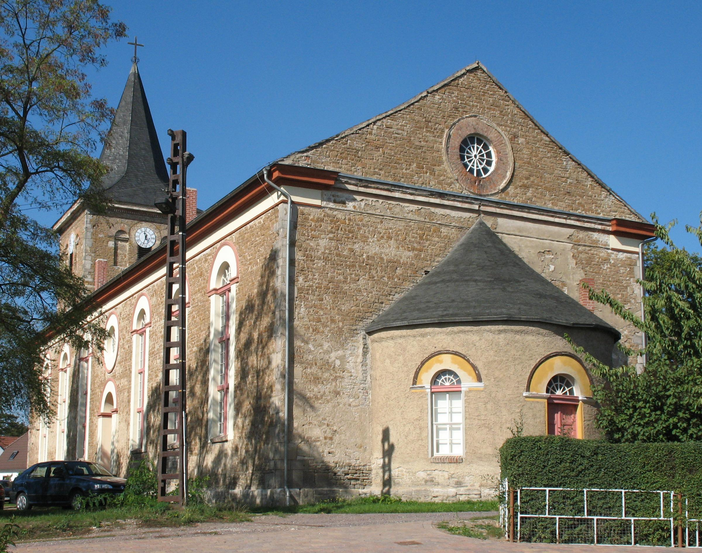 Church in Bad Dürrenberg in Saxony-Anhalt, Germany